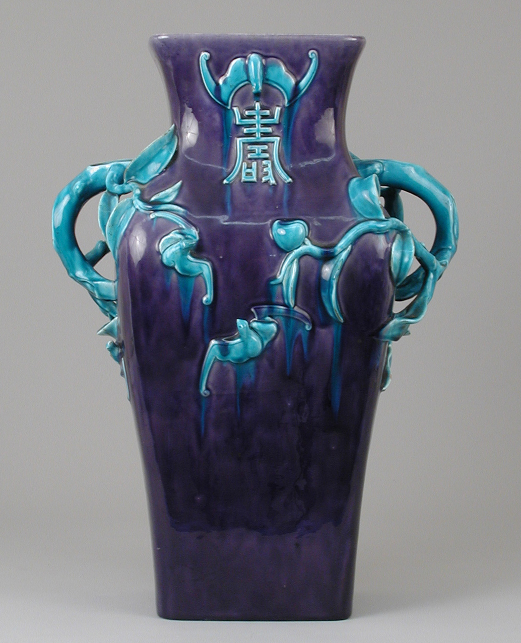 French; Vase; Ceramics-Pottery